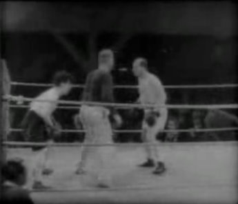 Screen shot of trailer to 1931 film City Lights.